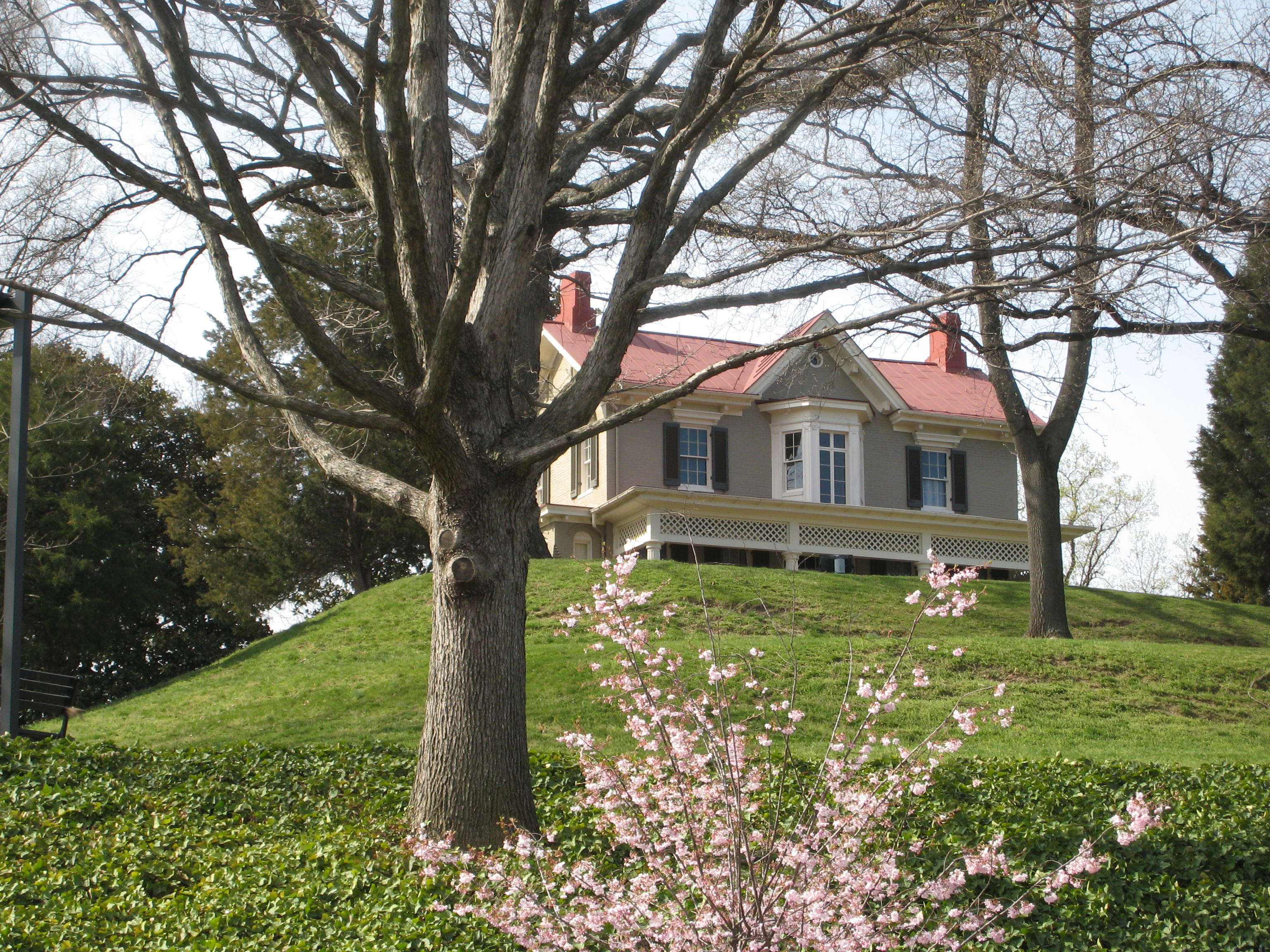 Frederick Douglass' House. Another Anacostia sight/museum, run by the National Park Service, Washington, D.C.